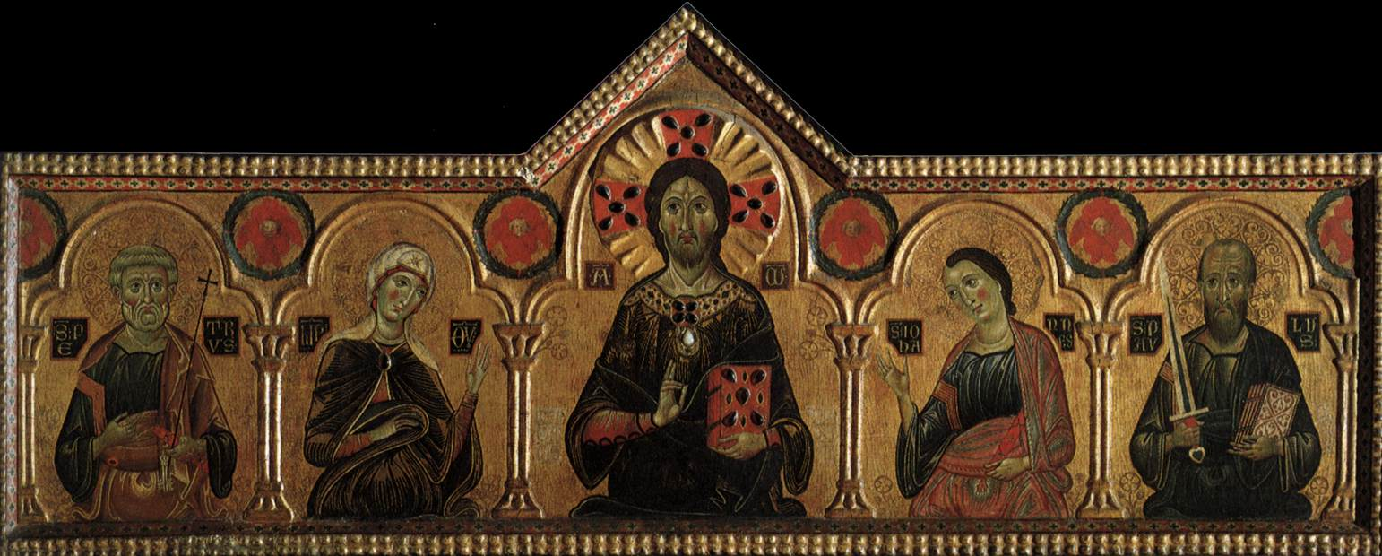 original frame, cherubs were added later attributed to Cosimo Rosselli